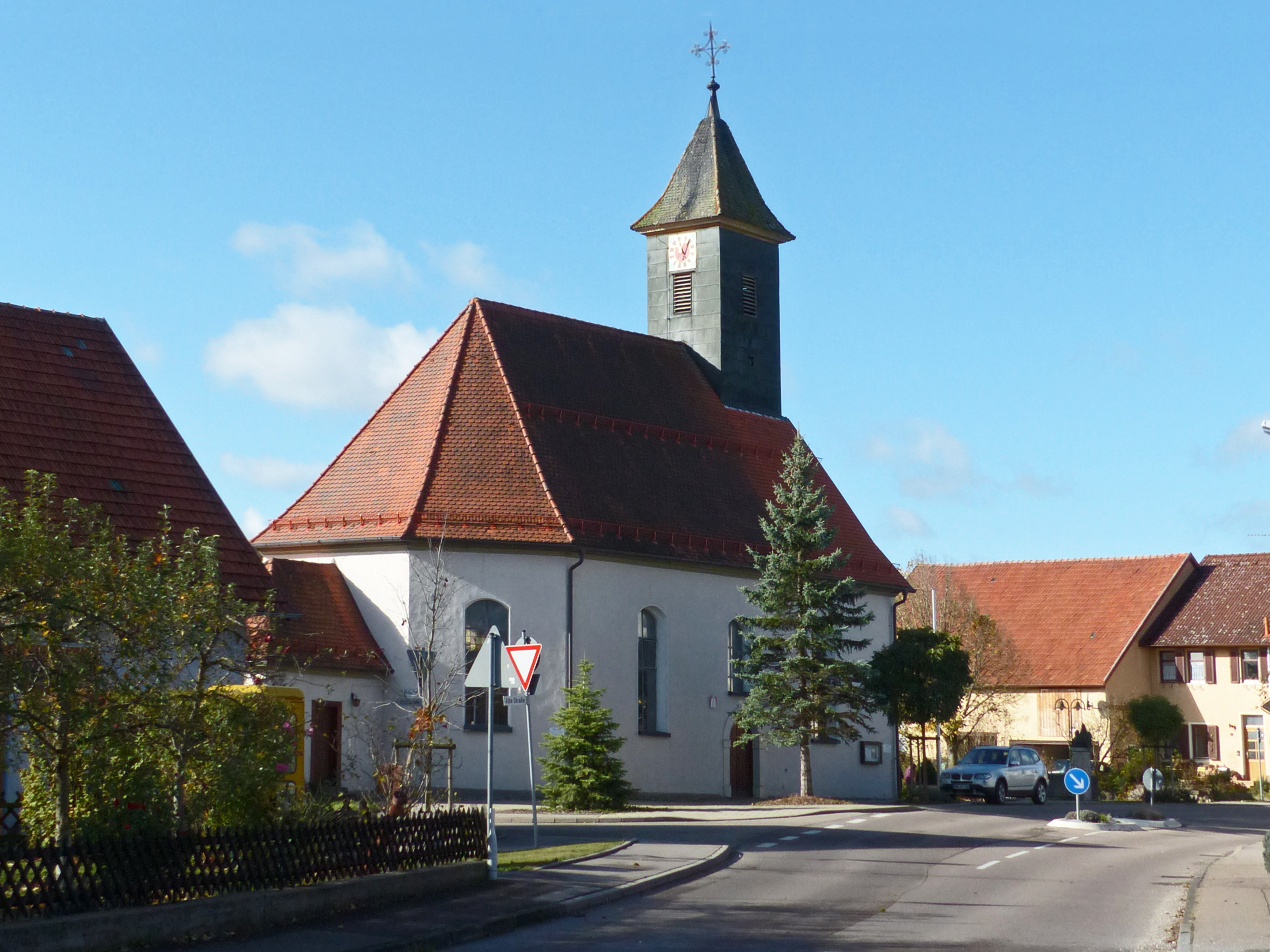 Village Church in Zang (2017)